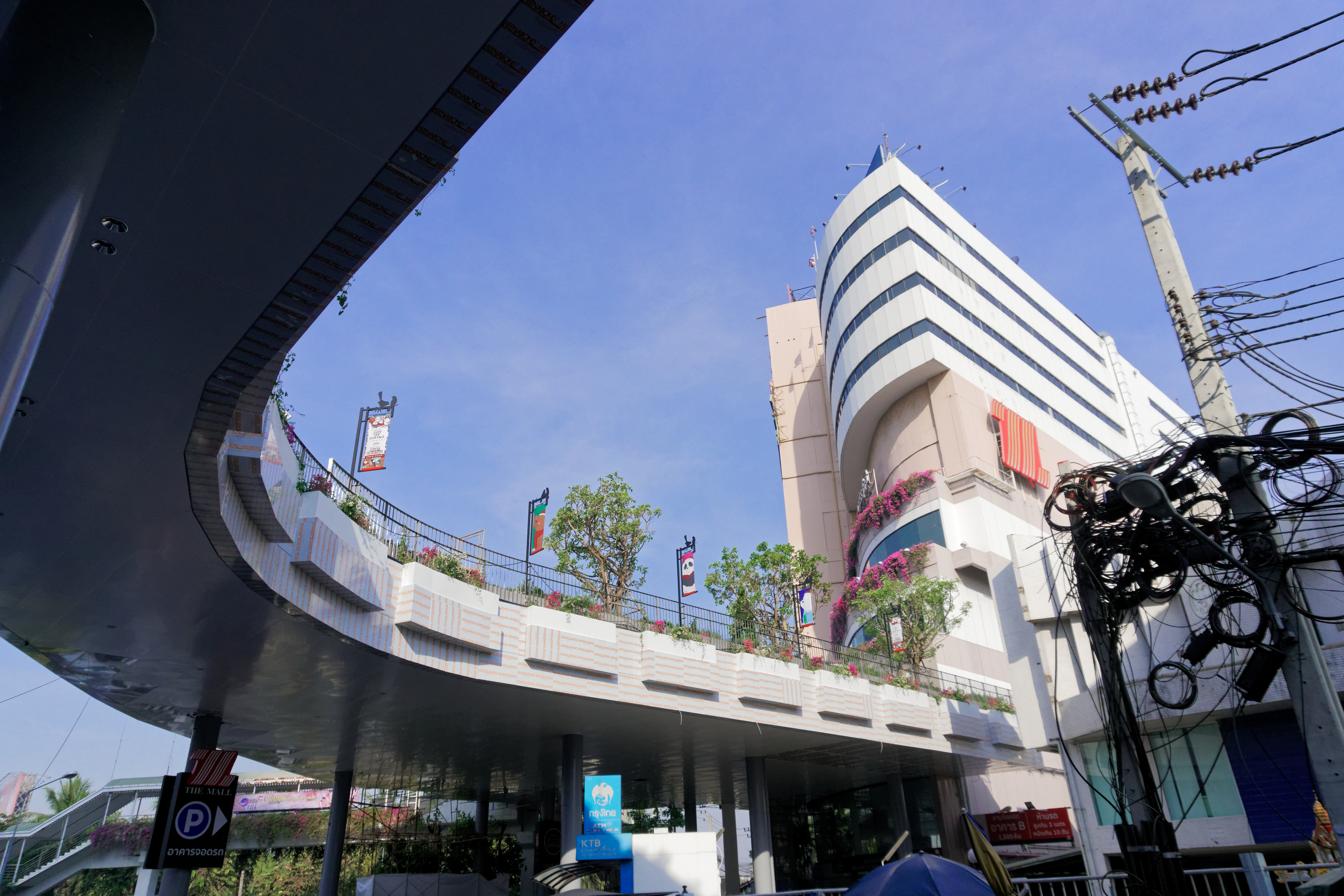 MRT Lak Song station: Skywalk from The Mall Bangkae shopping mall to the station